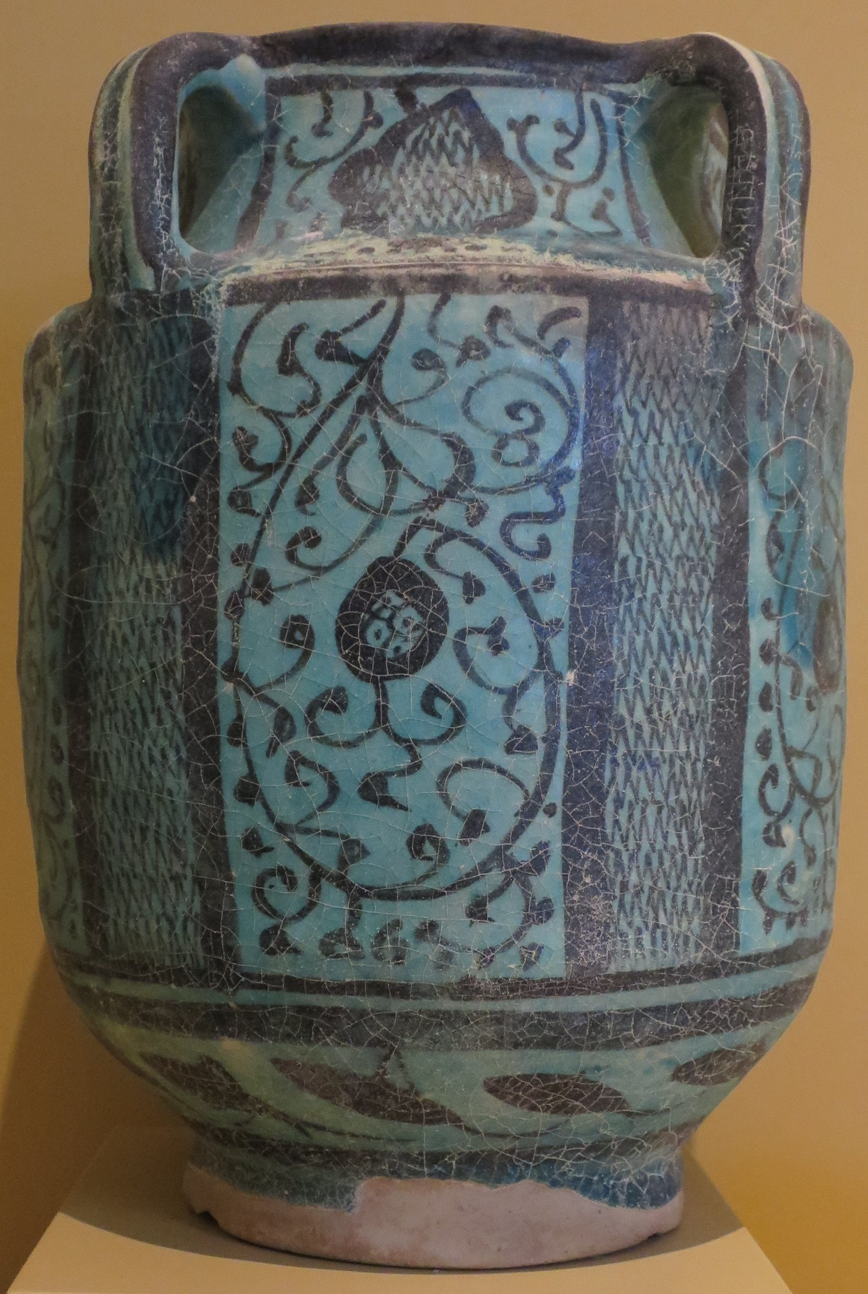 Storage jar from Iran, 13th century, glazed stone-paste, underglaze-painted, Honolulu Museum of Art (long-term loan from the Doris Duke Foundation for Islamic Art, accession 48.160)